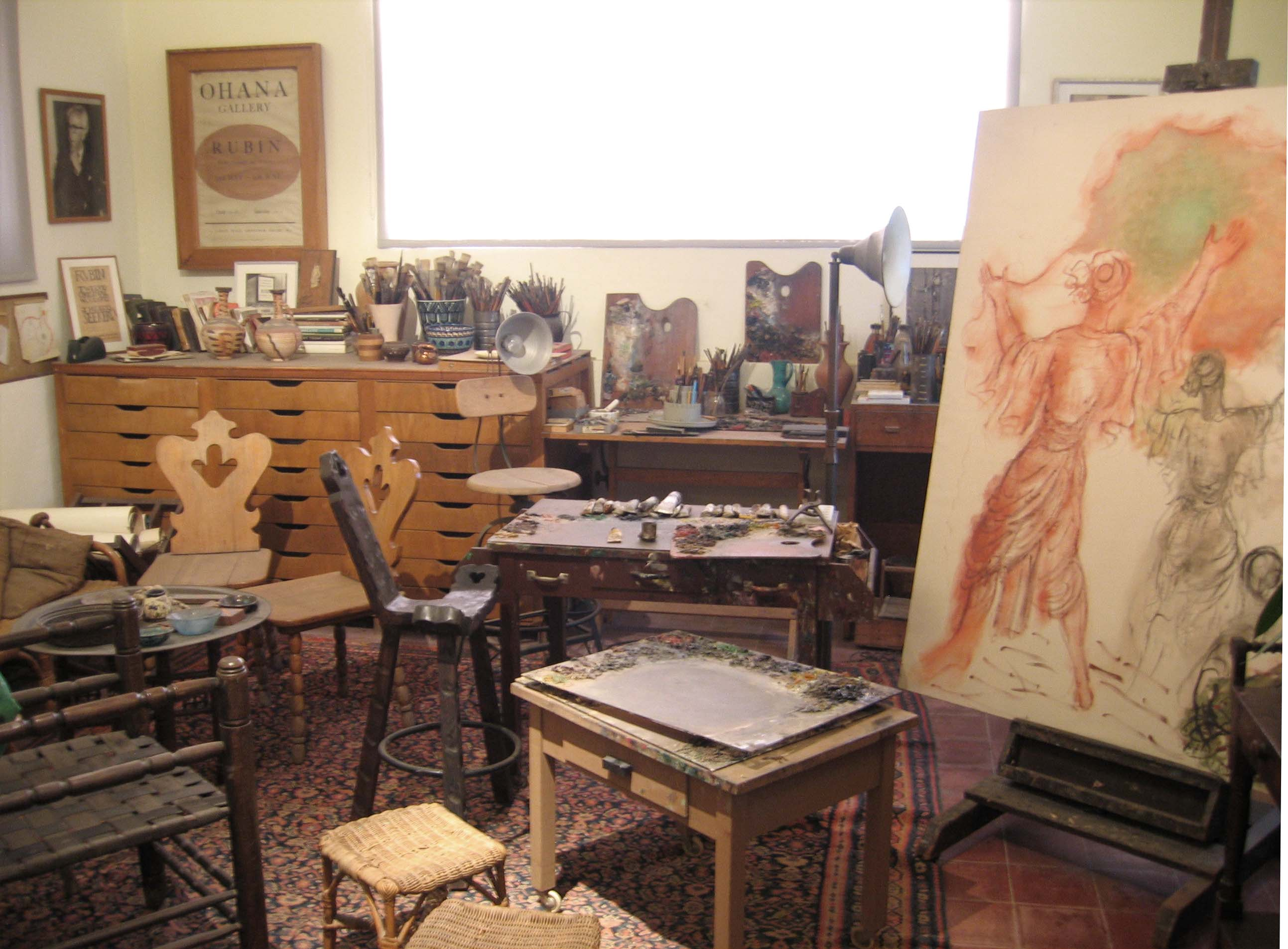 The studio at Rubin Museum